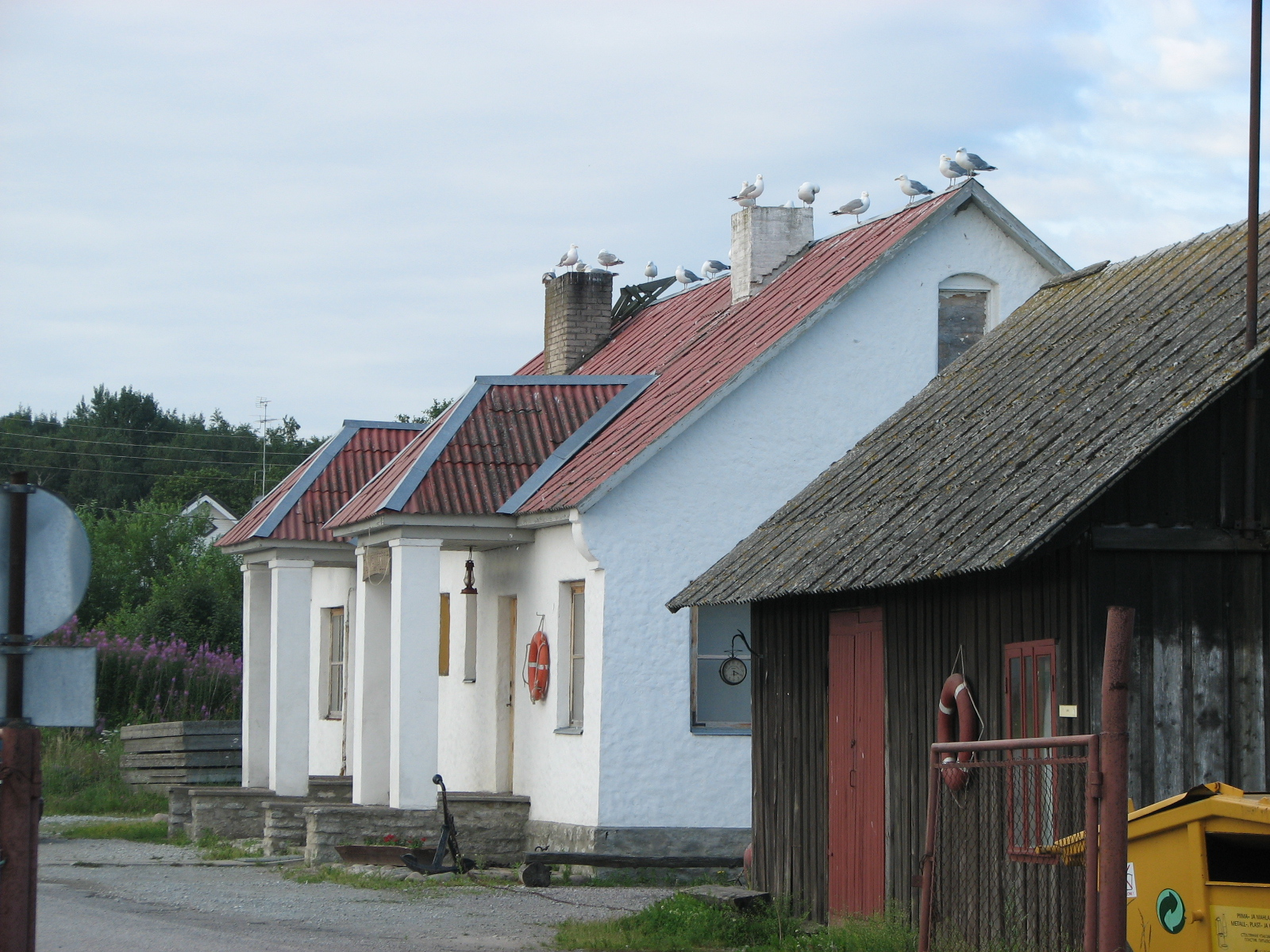 Leppneeme port in Viimsi Parish